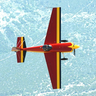 Zivko Aeronautics Inc. Edge 540 N540AW in flight over Kern County, California. N540AW was built in 1996 Edge as s/n 16. It is owned and flown by Ann Marie Ward of Seattle, WA.